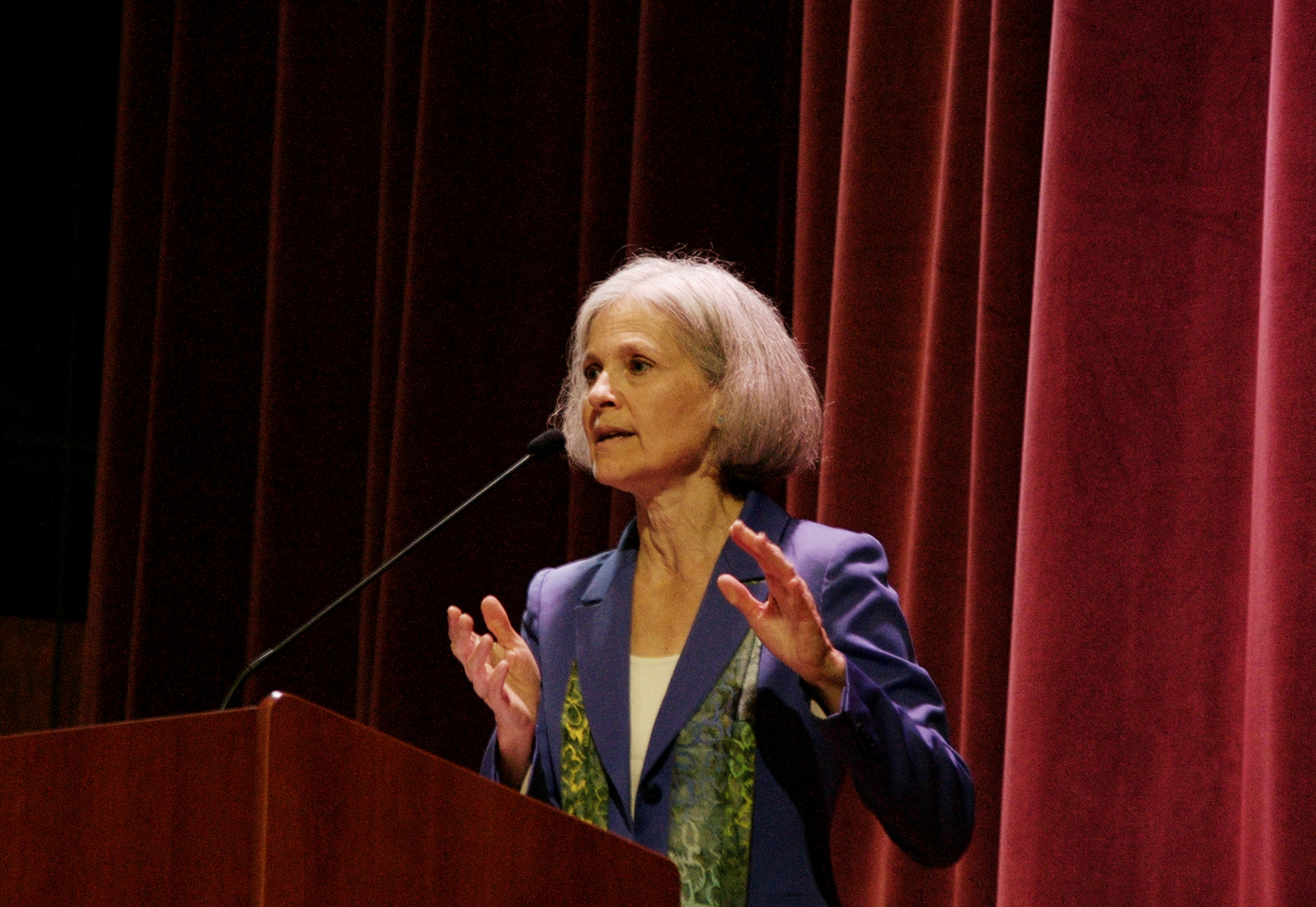 Jill Stein, the Green Party's 2012 candidate for President of the United States, speaking at Tennessee Technological University in Cookeville, Tennessee.